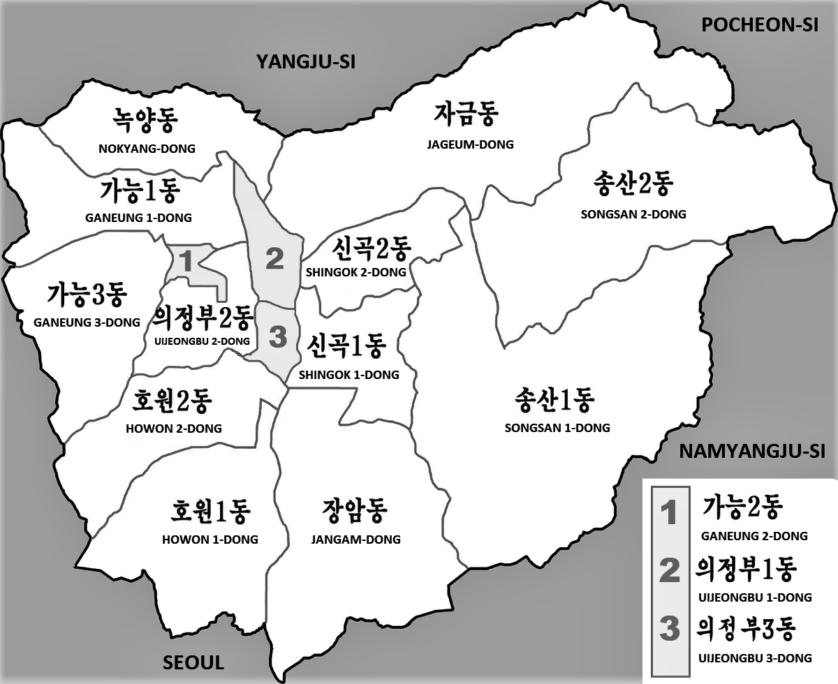 Administrative subdivision of Uijeongbu city.